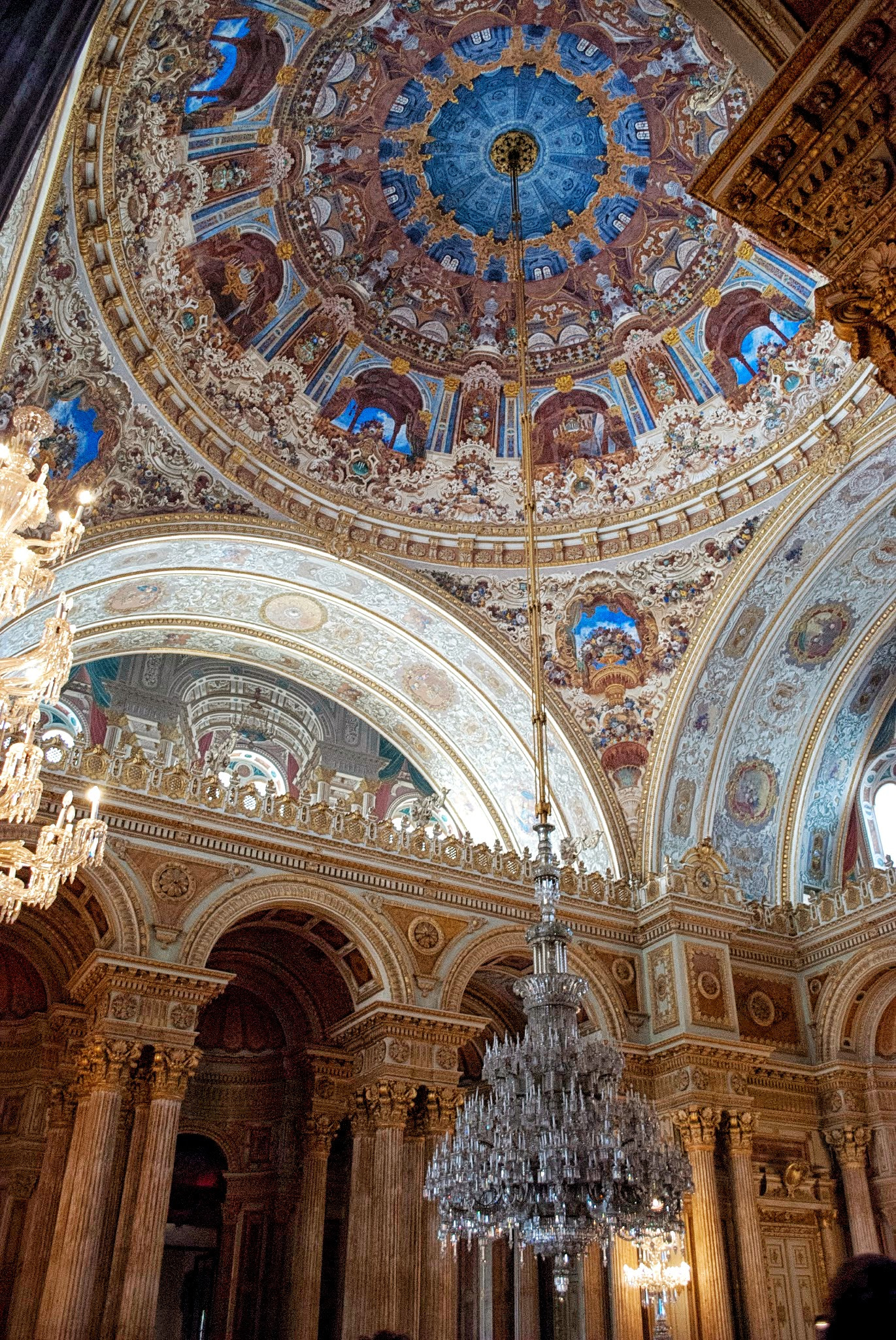 500px provided description: Dolmabahce [#travel ,#light ,#buildings ,#house ,#istanbul ,#outdoor ,#architecture ,#building ,#history ,#exposition ,#trip ,#photography ,#student ,#indoor ,#pasha ,#erasmus ,#sultan ,#follow ,#resident ,#Dolmabahce]